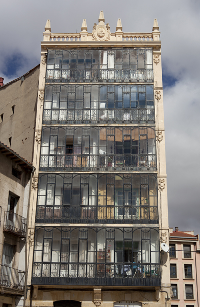 Soria, Soria, Spain; ; ; Photographer Paul M.R. Maeyaert; © Paul M.R. Maeyaert; ; Cultural heritage; Europe/Spain/Soria